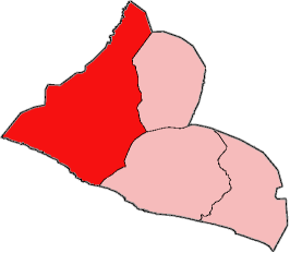 Map of Grand Kru County, Liberia showing Sasstown District; created with the GIMP. Made by User:Acntx.